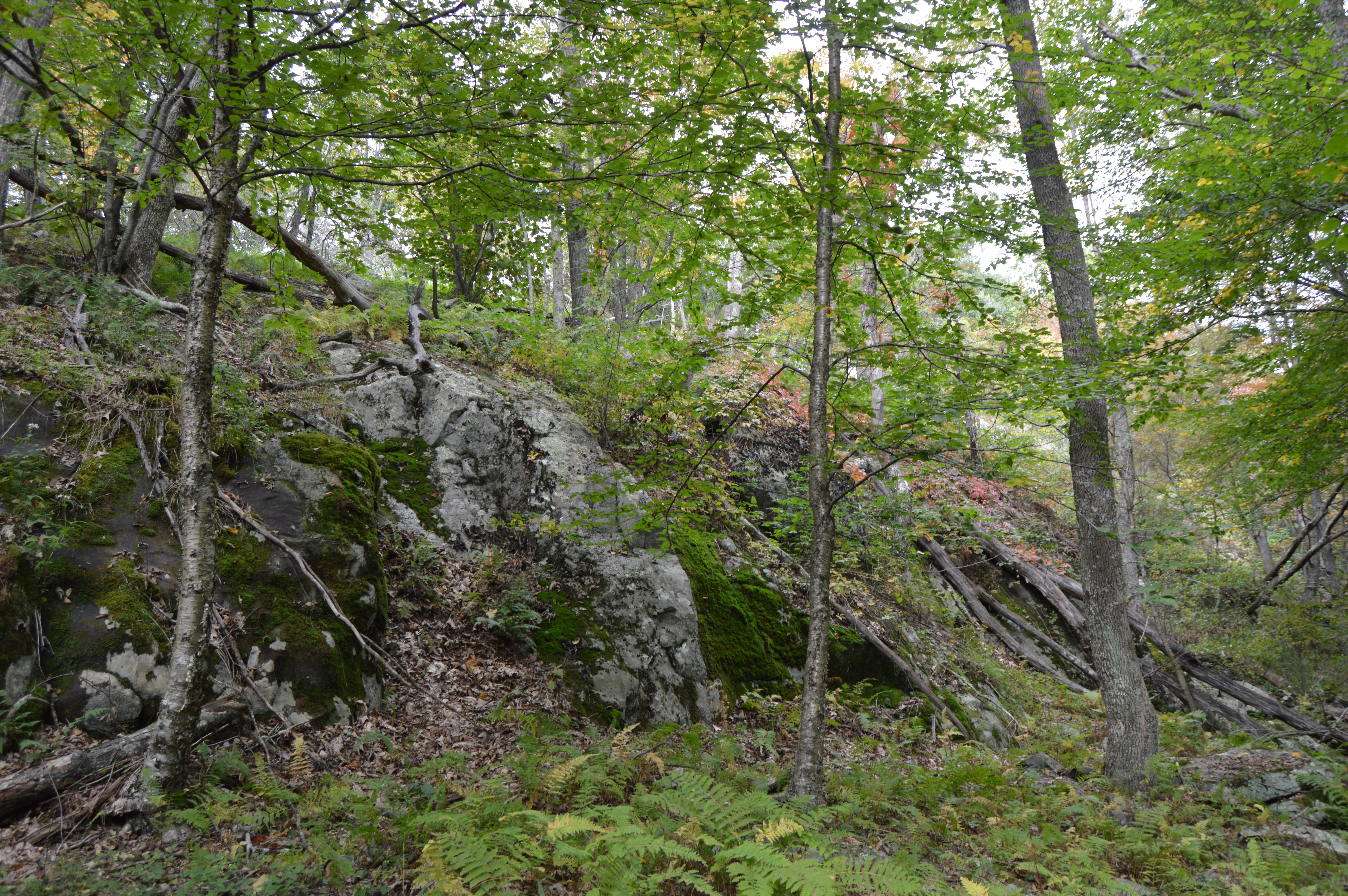 Overview of cliffs at the edge of Big Meadows and the headwaters of the Hogcamp Branch in the Madison County portion of Shenandoah National Park in the U.S. state of Virginia. Seemingly used as a buffalo jump, the site is known as the Cliff Kill Site; an important archaeological site, it has been listed on the National Register of Historic Places.